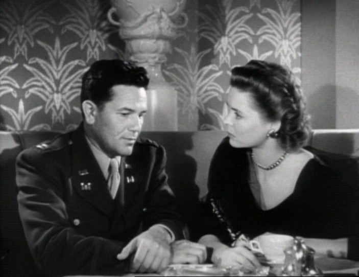 Cropped screenshot of John Garfield and Dorothy McGuire from the trailer for the film Gentleman's Agreement.